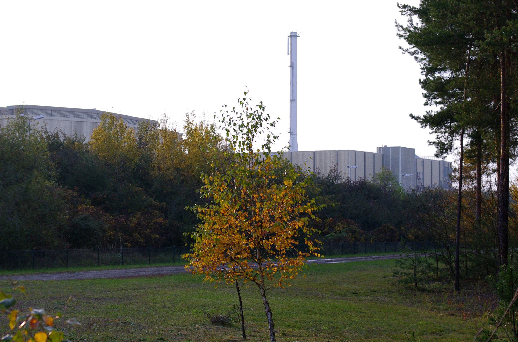 Look at the so-called pilot conditioning plant in the forest south of Gorleben. The future use of this system (right side) is the testing and development of procedures to make the high-level radioactive waste "fit for final storage"... The plant is operational, but currently not in operation. On the left a part of the interim storage facility for highly radioactive nuclear waste.